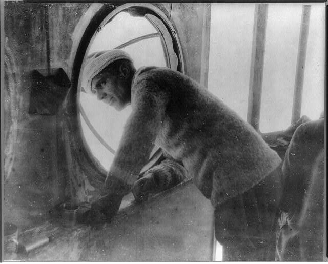 Col. Umberto Nobile, designer of the "Norge," watching her departure from the base at Spitzbergen, from forward control car